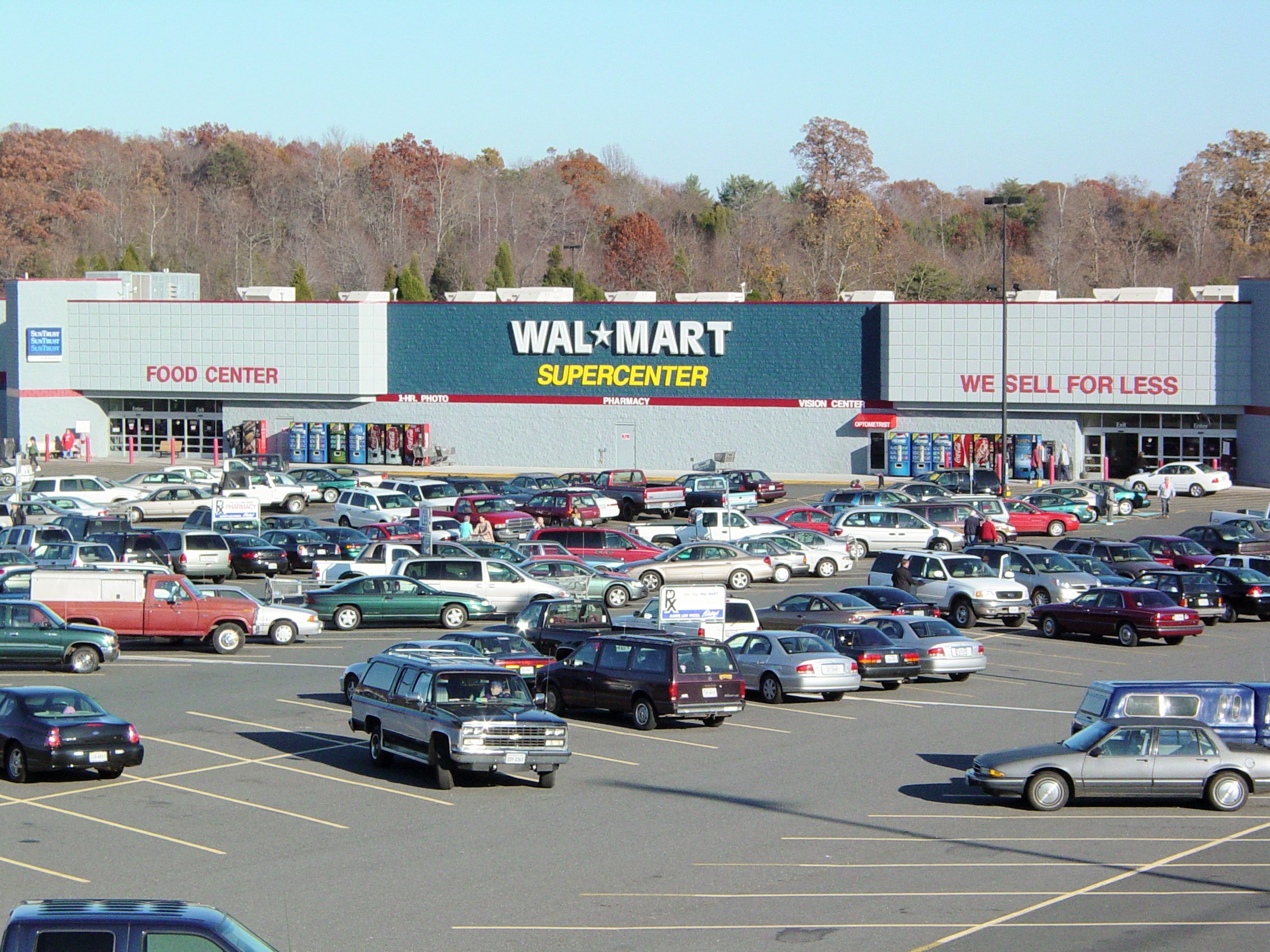 Exterior of a Wal-Mart Supercenter in Madison Heights, Virginia.